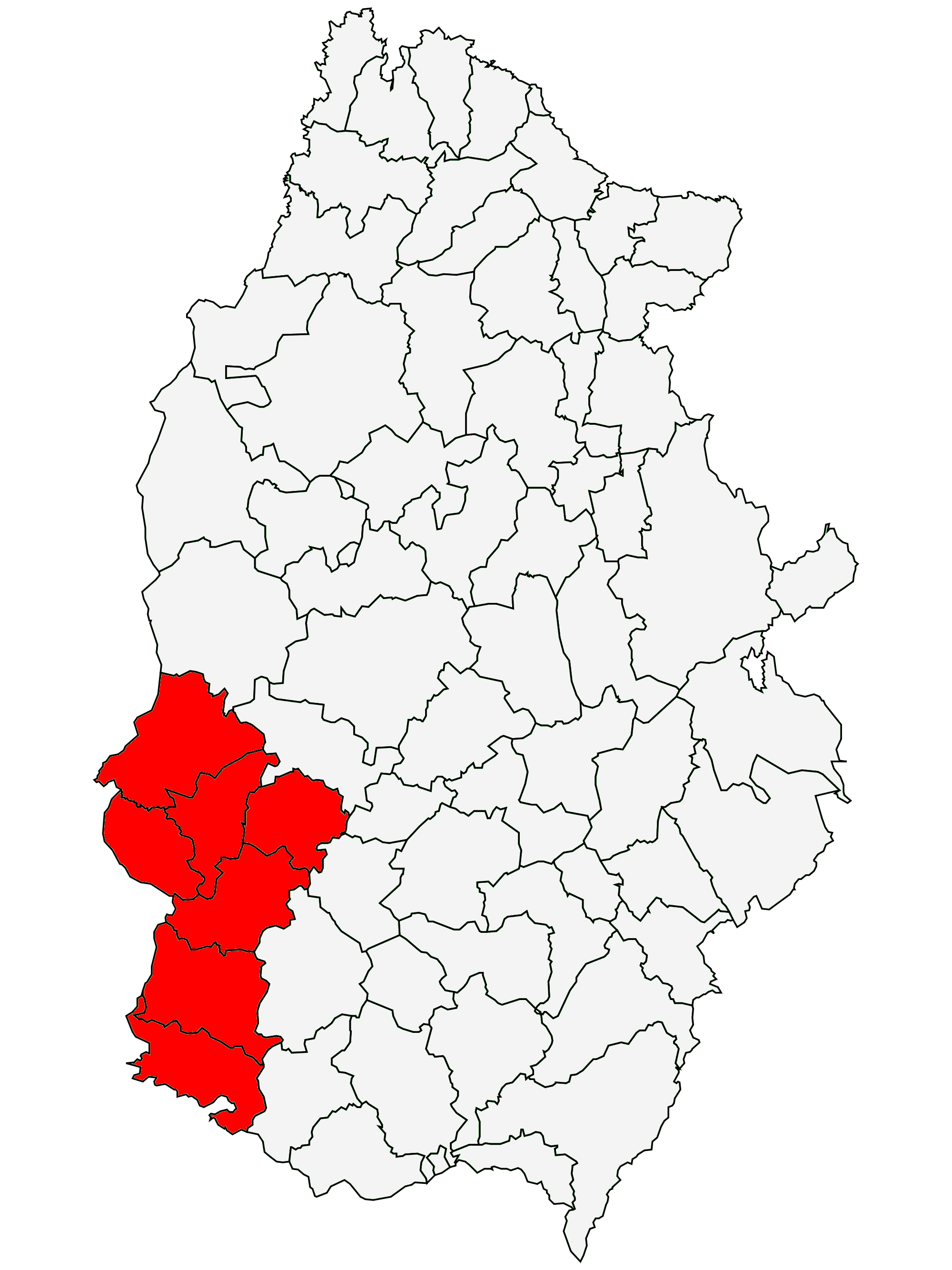 Chantada